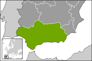 Map extent is fitted to NUTS ES6 area (Southern Spain).